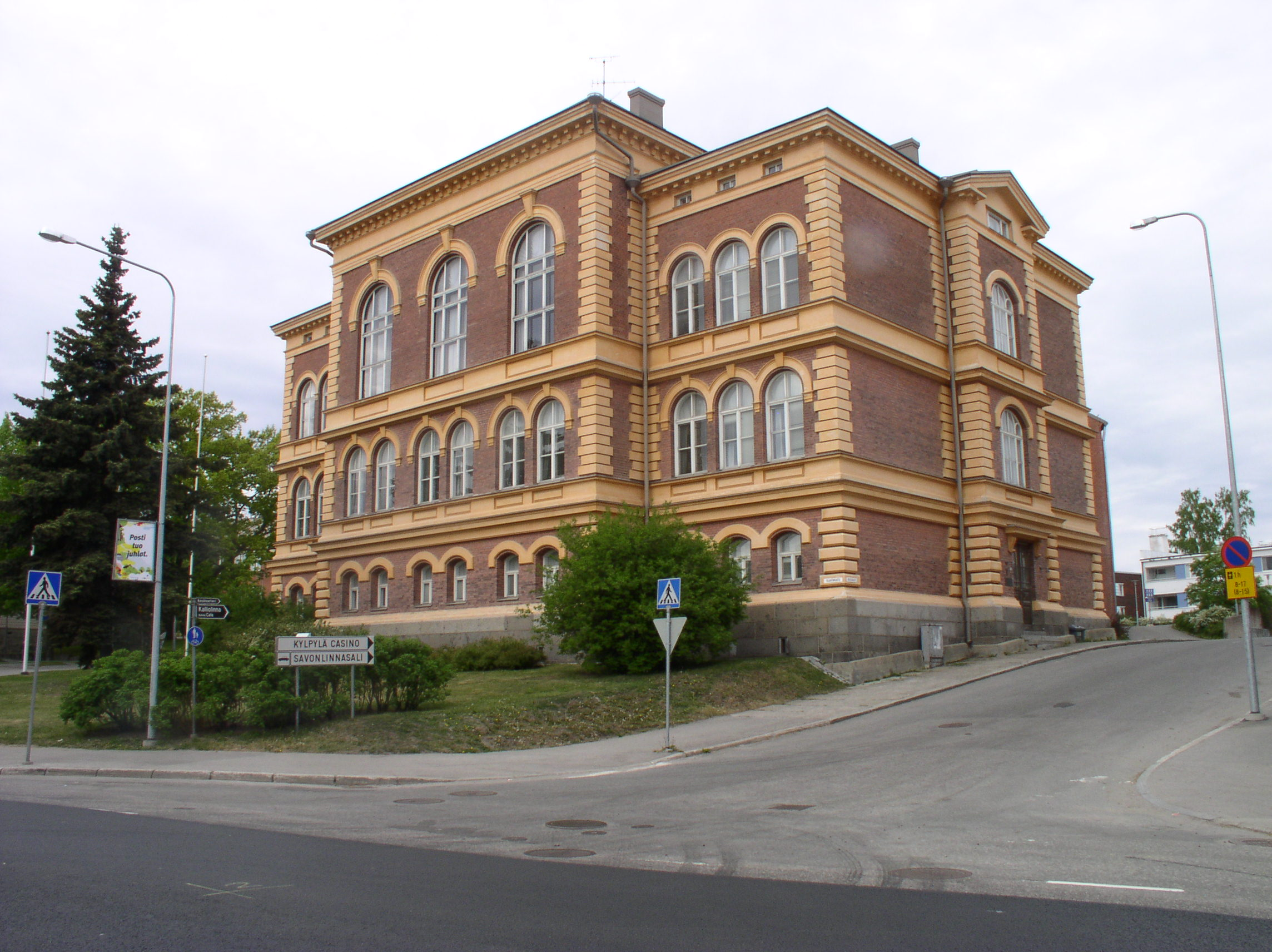 The old building of the Savonlinna Lyceum, now part of the Town Hall of Savonlinna, Finland.